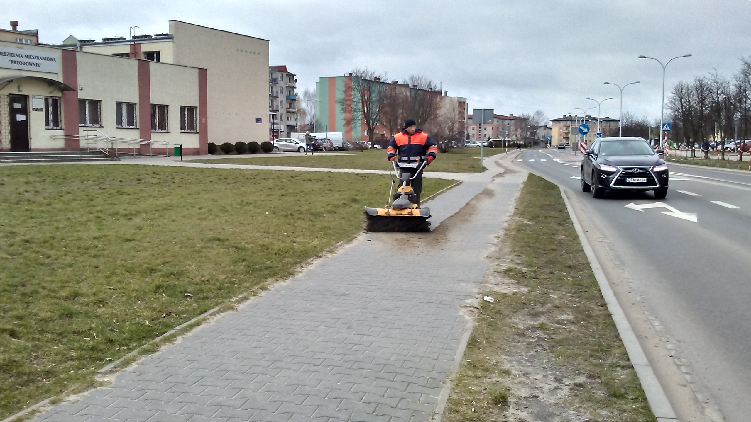 Spring celeaning city.